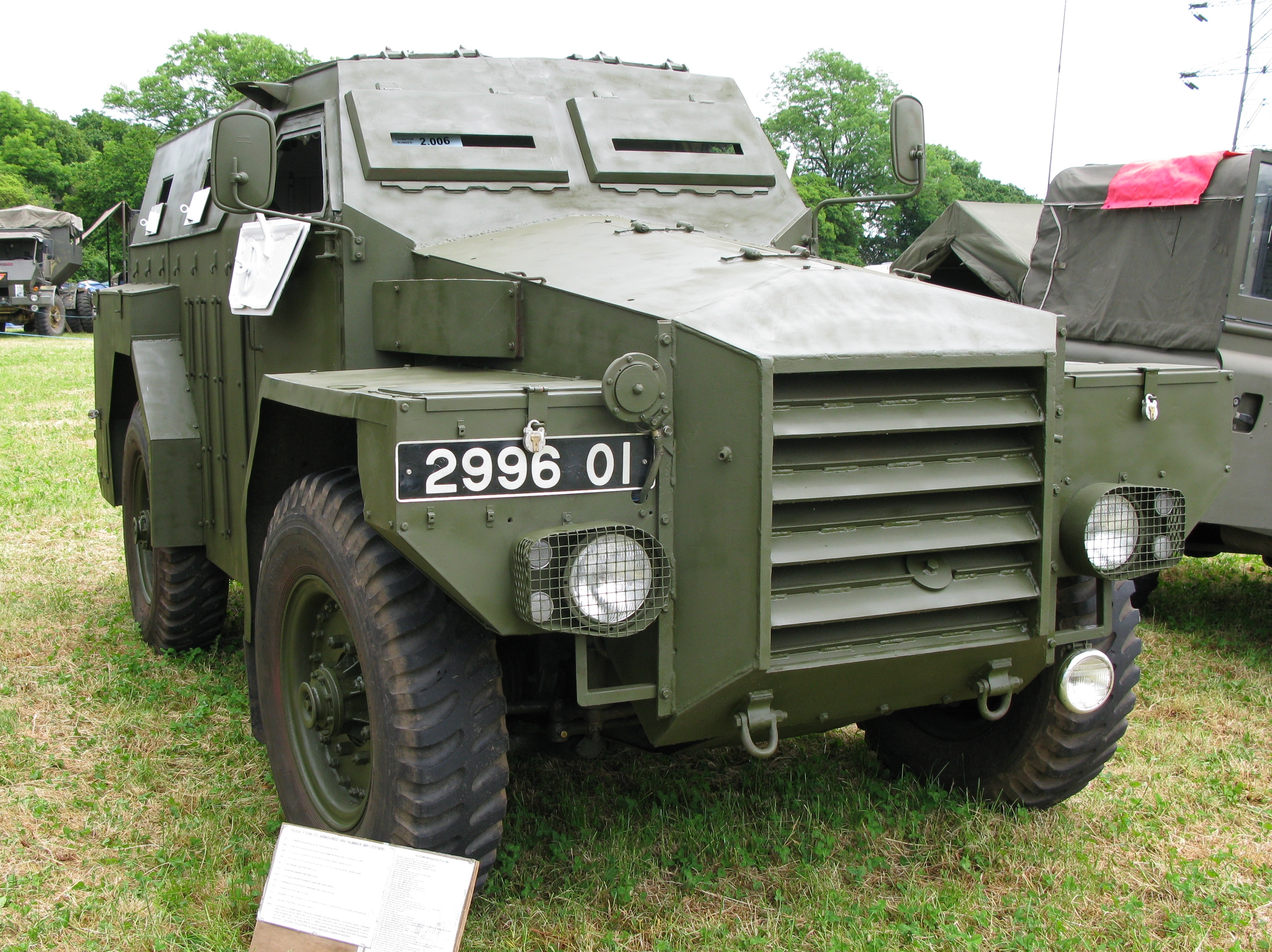 A humber pig with a mixture of Mk1 and Mk2 features.